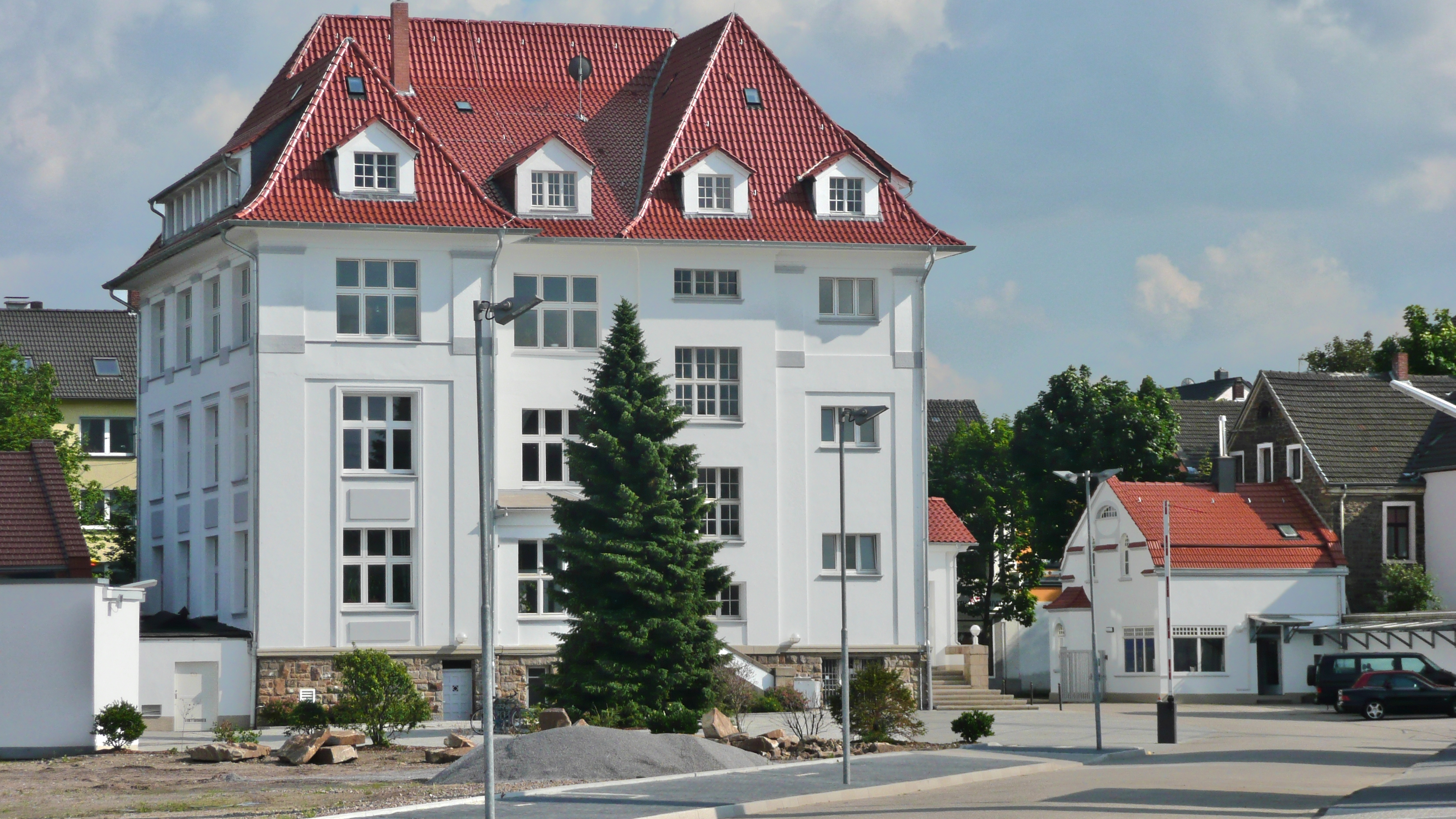 office building at Witten-Annen, Annenstraße 113; built 1908-1910 for a Krupp branch factory, after 1925 used by Wickmann company, today technical offices of the city administration